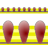 Horodyskia apparently re-arranged itself into fewer but larger main masses as as the sediment grew deeper round its base. Ref:Fedonkin, M.A. (2003-03). "The origin of the Metazoa in the light of the Proterozoic fossil record". Paleontological Research 7 (1): 9–41. Retrieved on 2008-09-02.